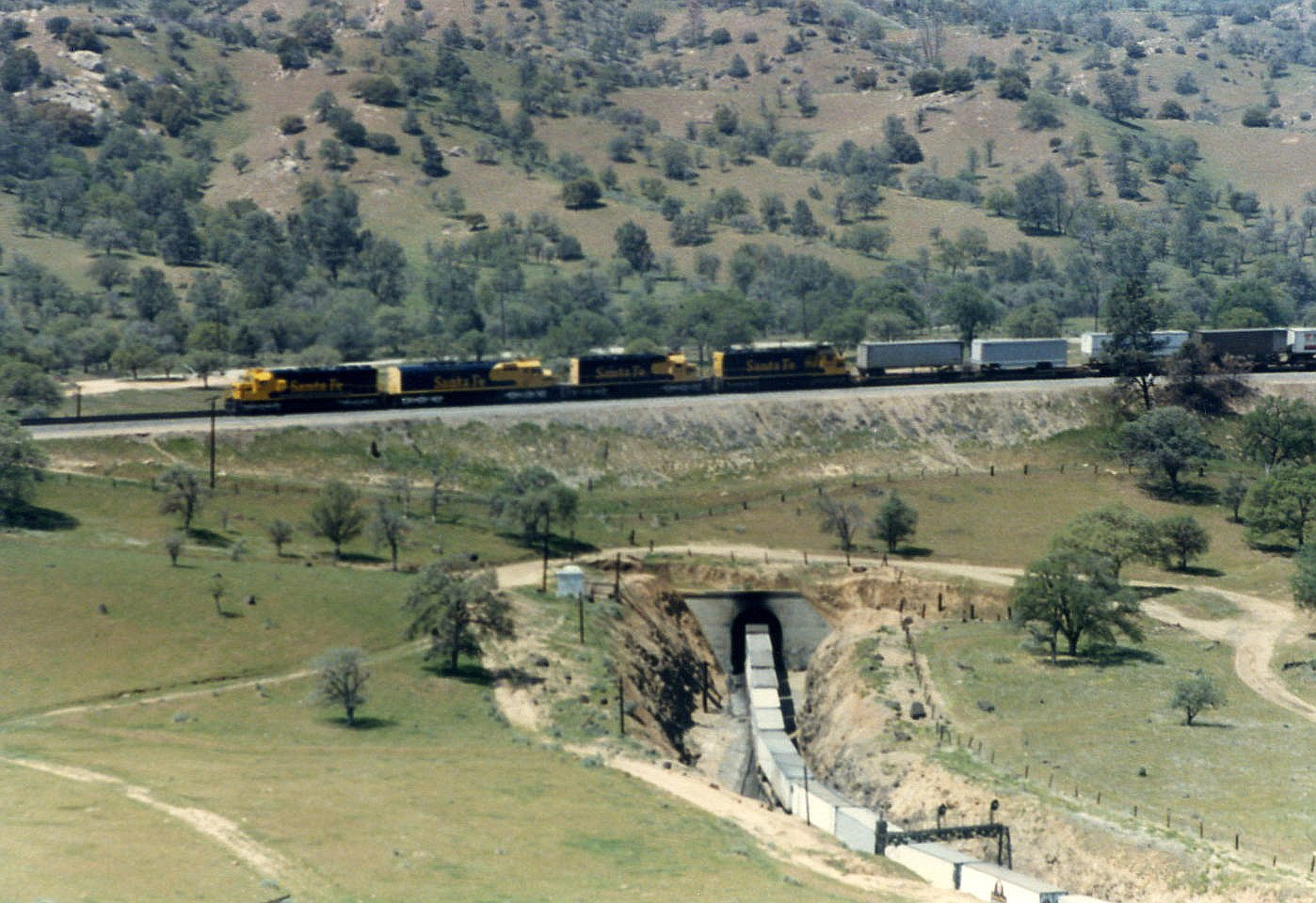 A Santa Fe Railroad train negotiates Tehachapi Loop eastbound. It crosses over itself at tunnel 9 in this April en:1987 photo.